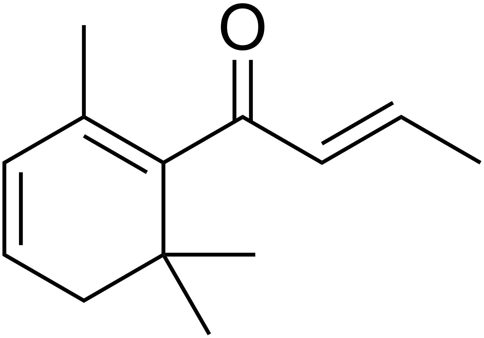 chemical structure of beta-damascenone